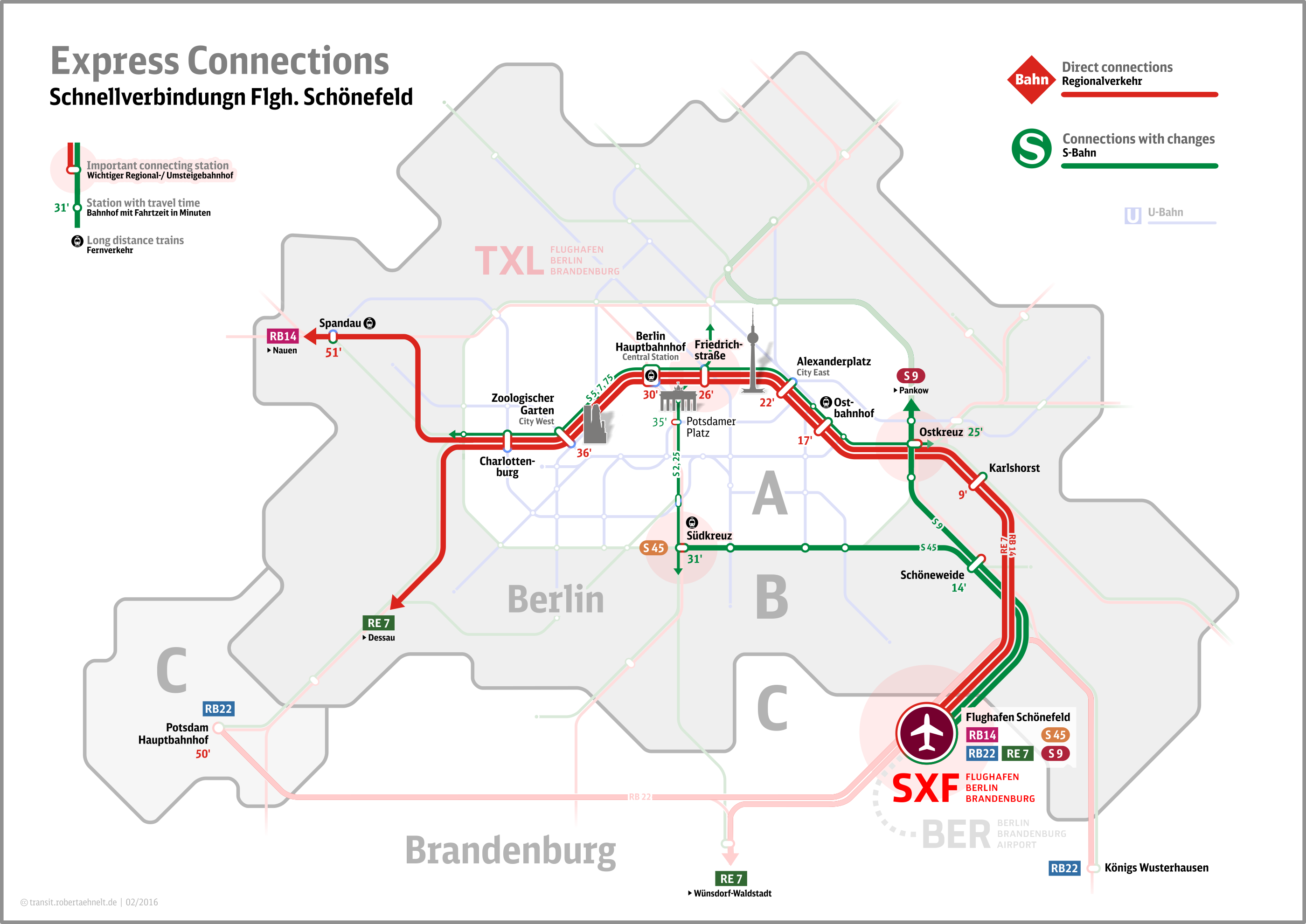 Express connections from Berlin Schönefeld Airport